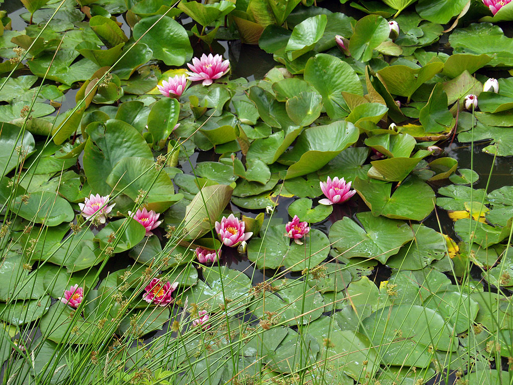 Water lily (Nymphaea alba) – at Domburg/Province Zealand/Netherlands